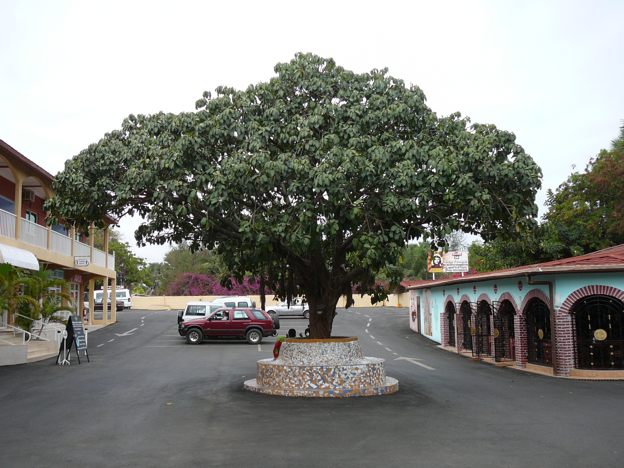 Okwa tree